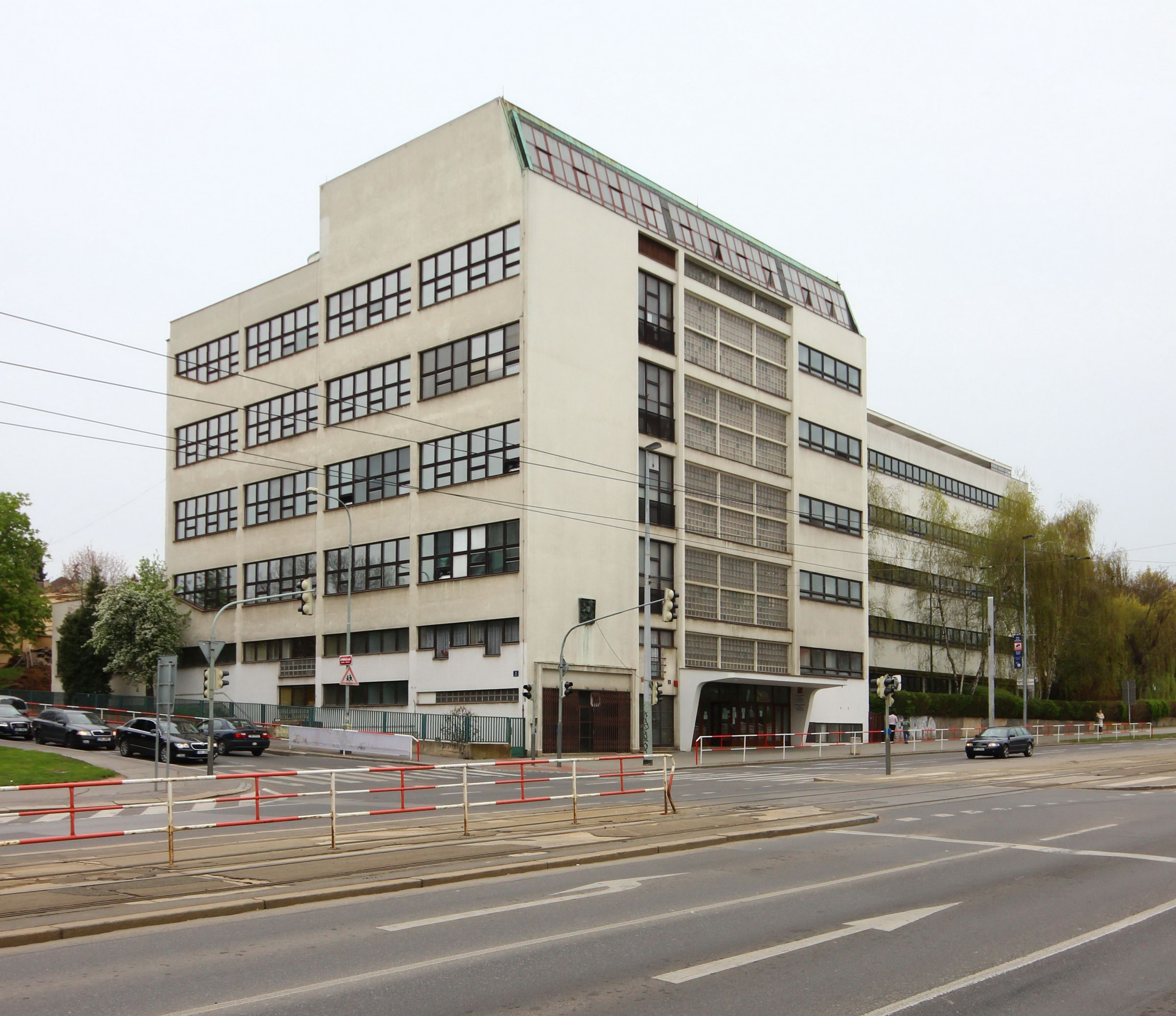 Evžen Linhart: Dr. Edvard Beneš secondary school, Praha 6 - Dejvice, č. p. 330, Evropská 33, 1937-1938